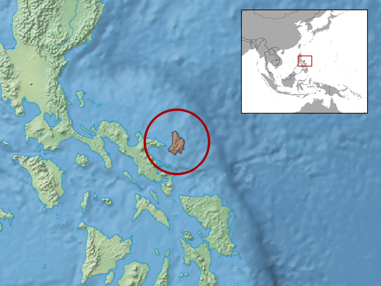 geographic distribution of Brachymeles minimus